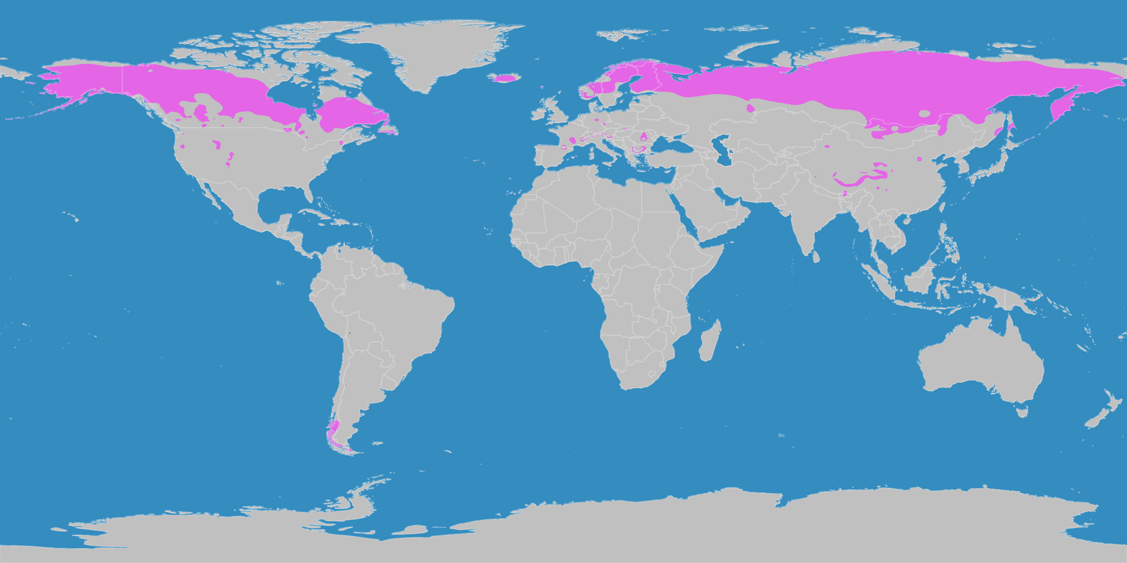 This map shows the Earth zones with a cold temperate climate.